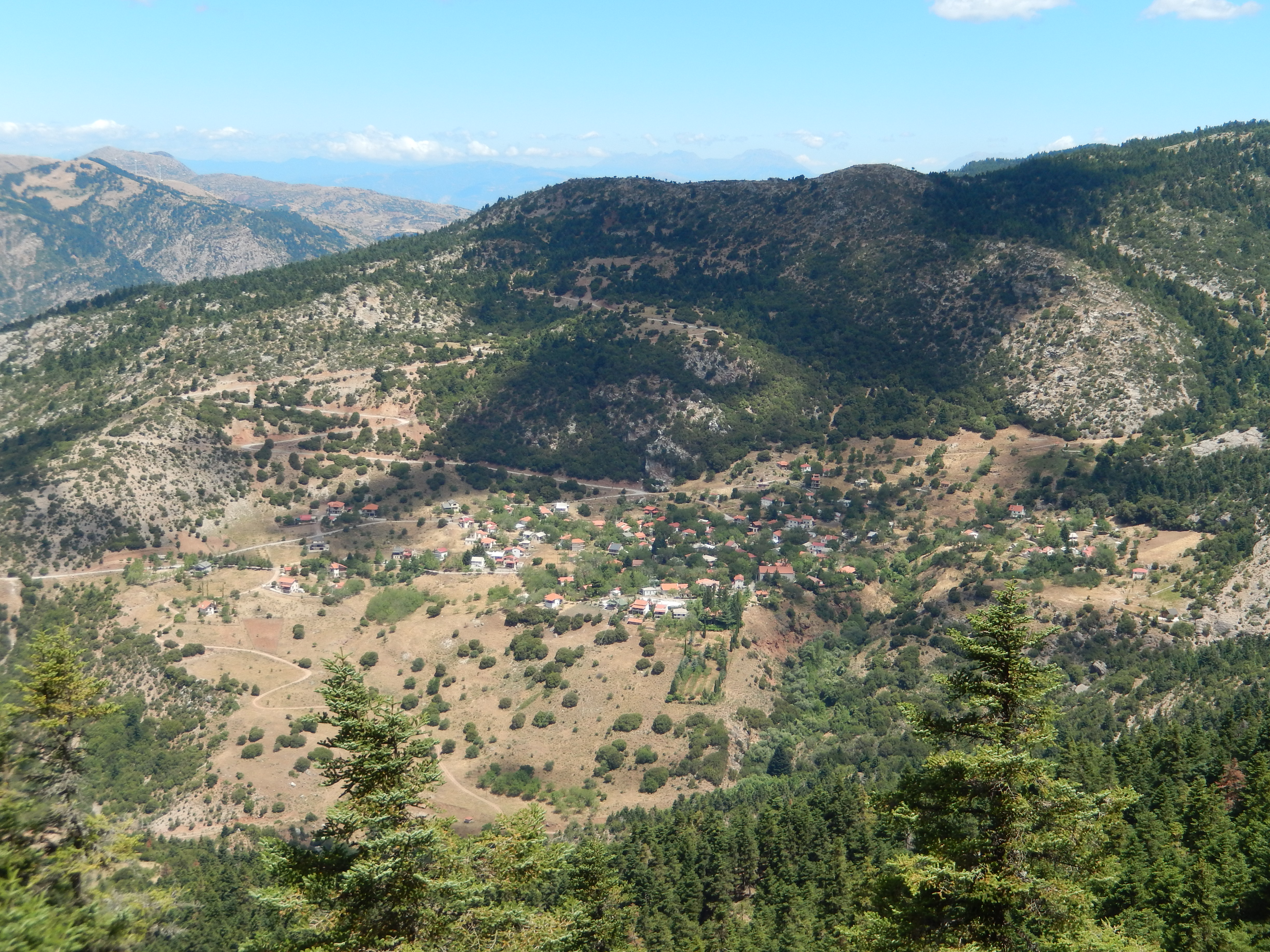 Βραχνί Αχαίας